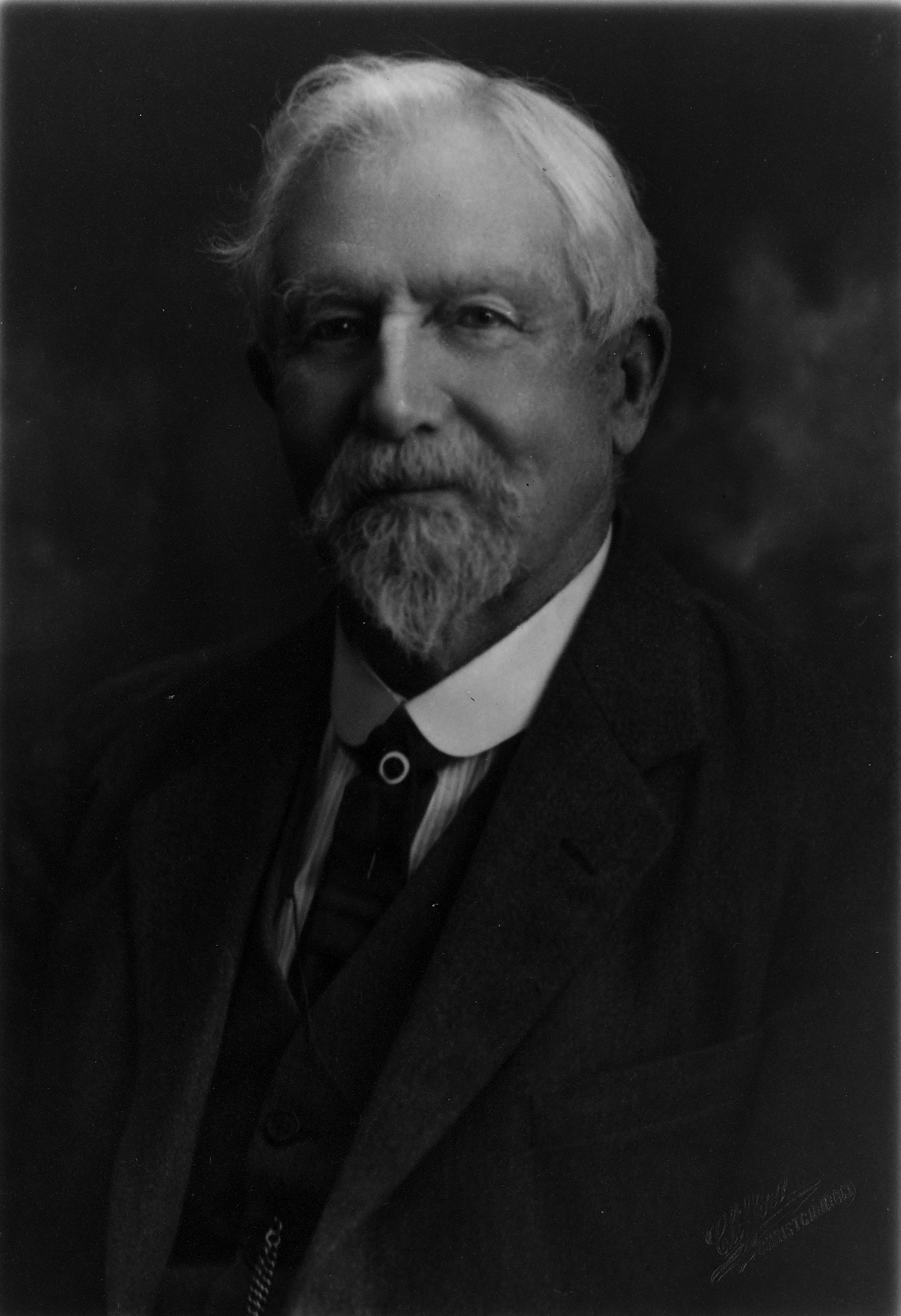 Head and shoulders portrait of Arthur Dudley Dobson aged 90 years.